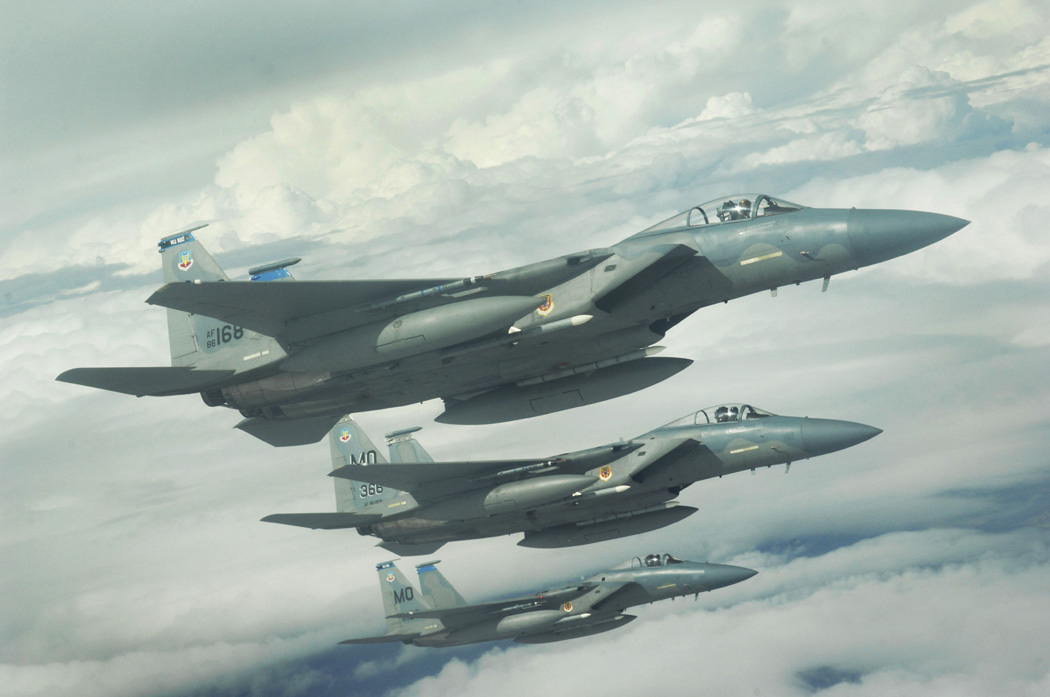 A 3-ship of F-15C's including F-15C-42-MC 86-0168 from the 390th Fighter Squadron, 366th Fighter Wing at Mountain Home Air Force Base, Idaho head out to the Nevada Test and Training range on July 24, 2009 during Red Flag 09-4. Red Flag is a realistic combat training exercise involving the air forces of the United States and its allies. The exercise is conducted on the 15,000-square-mile Nevada Test and Training Range, north of Las Vegas, NV. (U.S. Air Force photo by Master Sgt. Kevin J. Gruenwald)